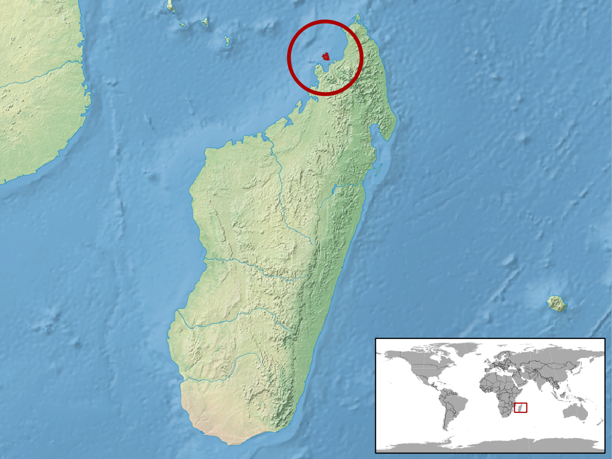 geographic distribution of Trachylepis lavarambo